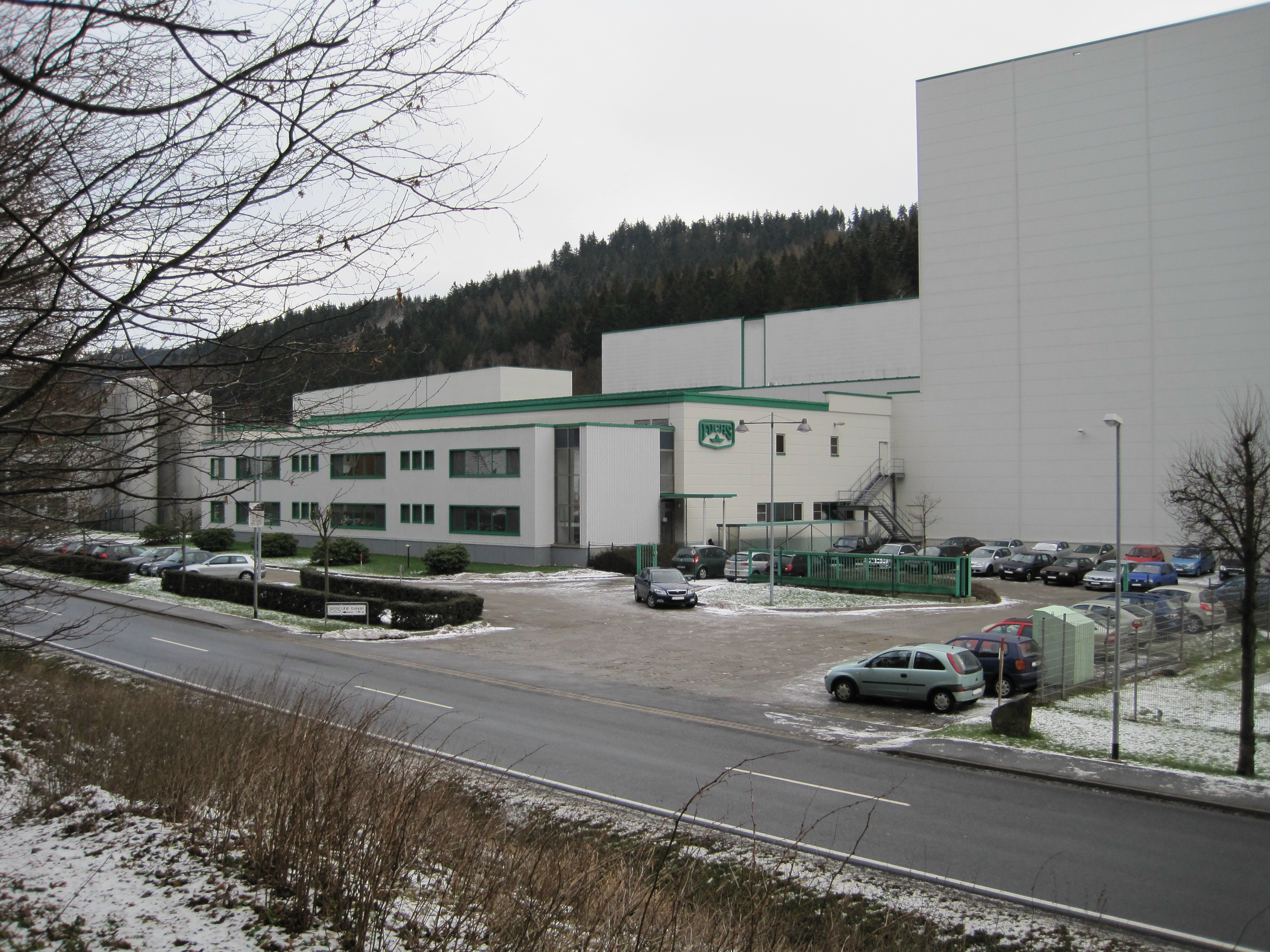 Partial view of one of the largest spice factories in Europe in the city of Schoenbrunn, Thuringia.